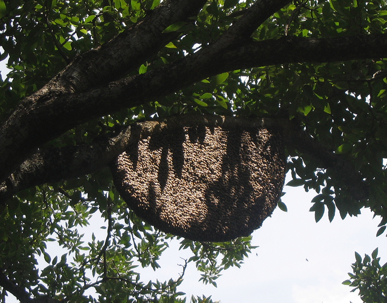 Apis dorsata (giant honey bee) nest